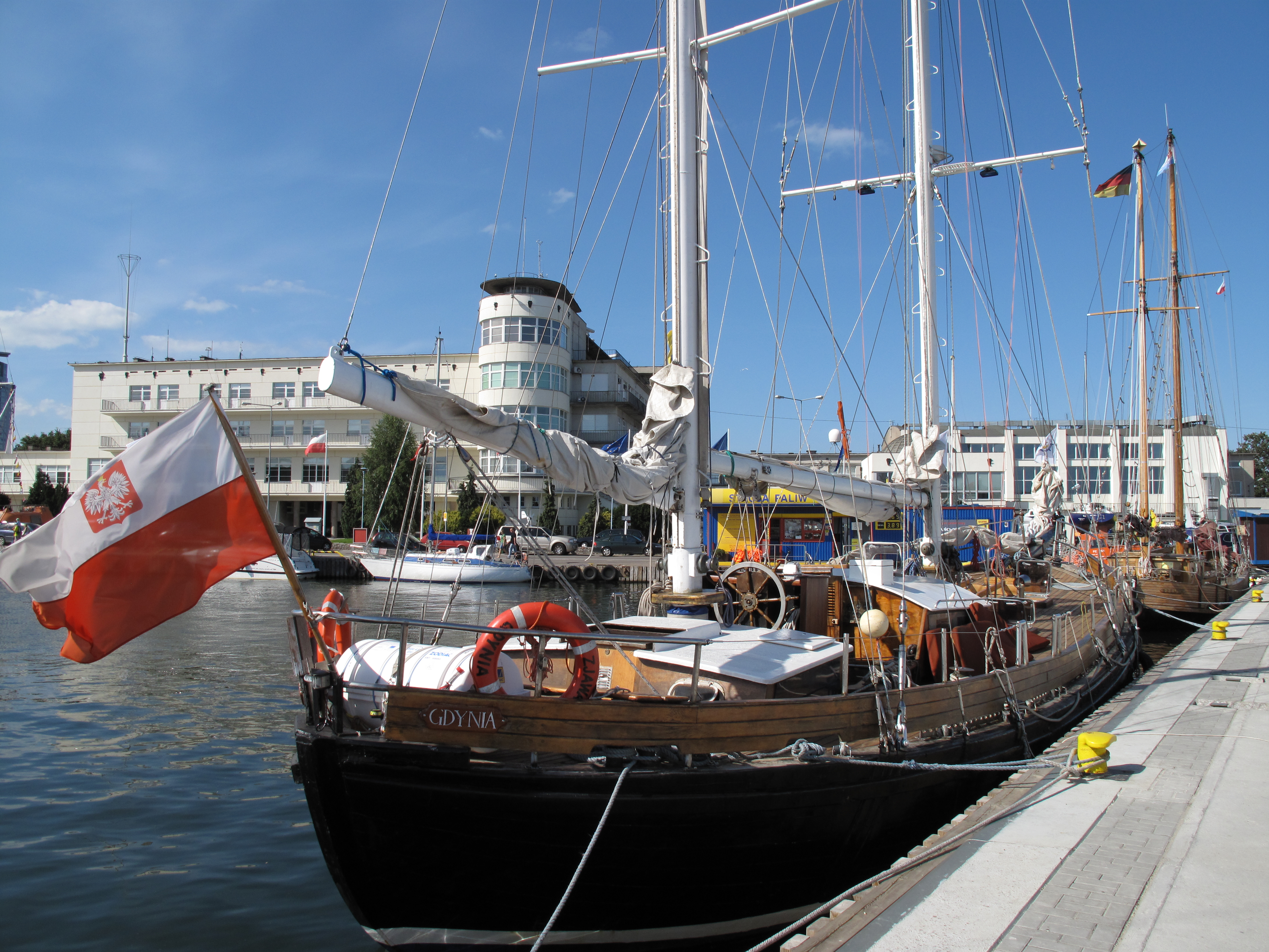 The port in Gdynia, Poland.